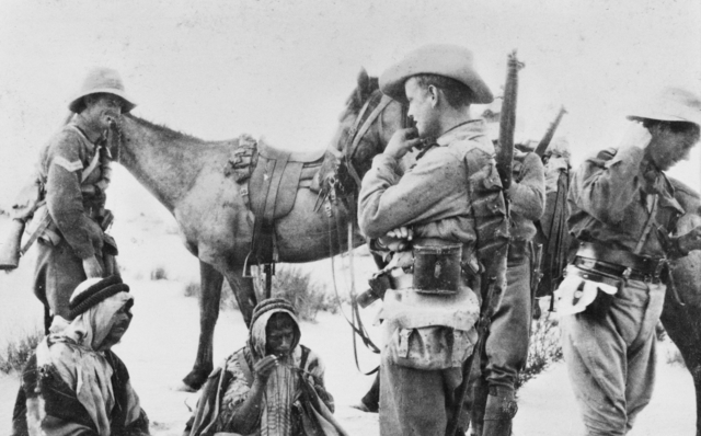 Three unidentified troopers of the 2nd Light Horse Regiment on patrol at Gererat in the Sinai. They have stopped to have a chat with two local men.